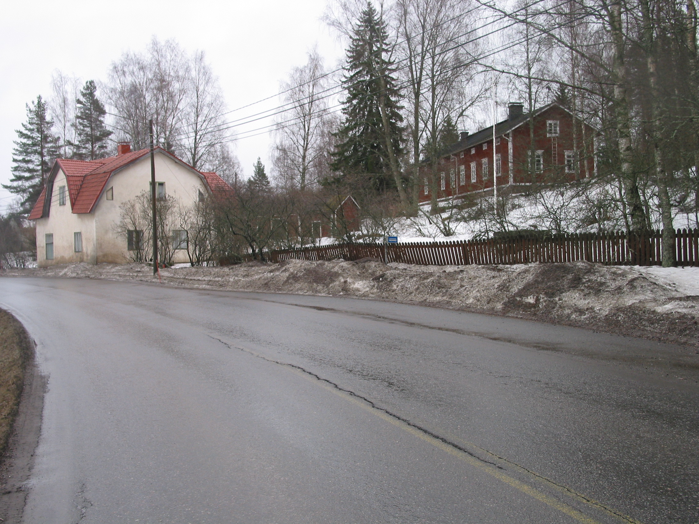 Eeva Joenpelto -House and the former shop in Myllykylä, Lohja, Finland